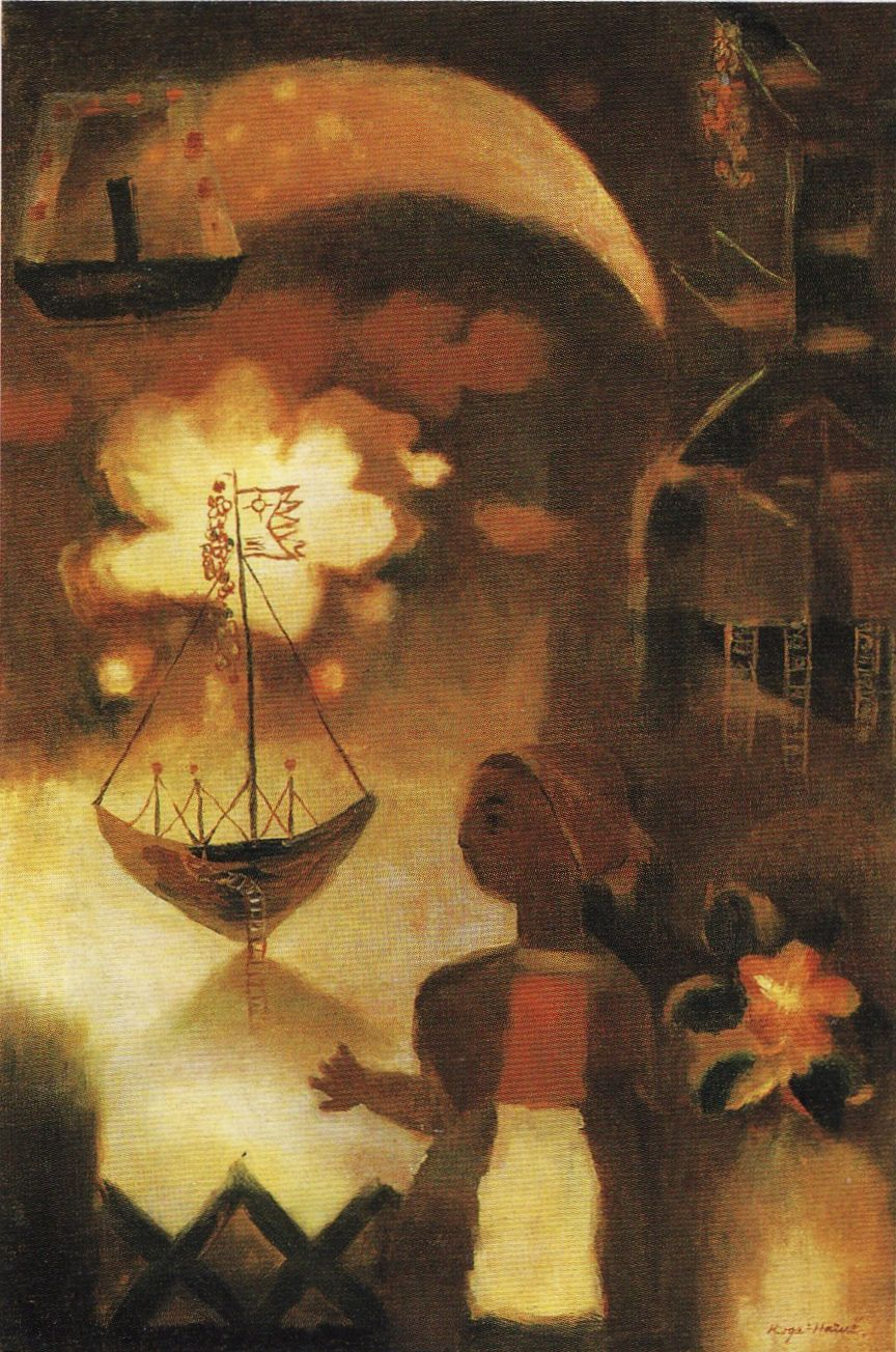 Koga Harue "Enka (means Foggy fire)"